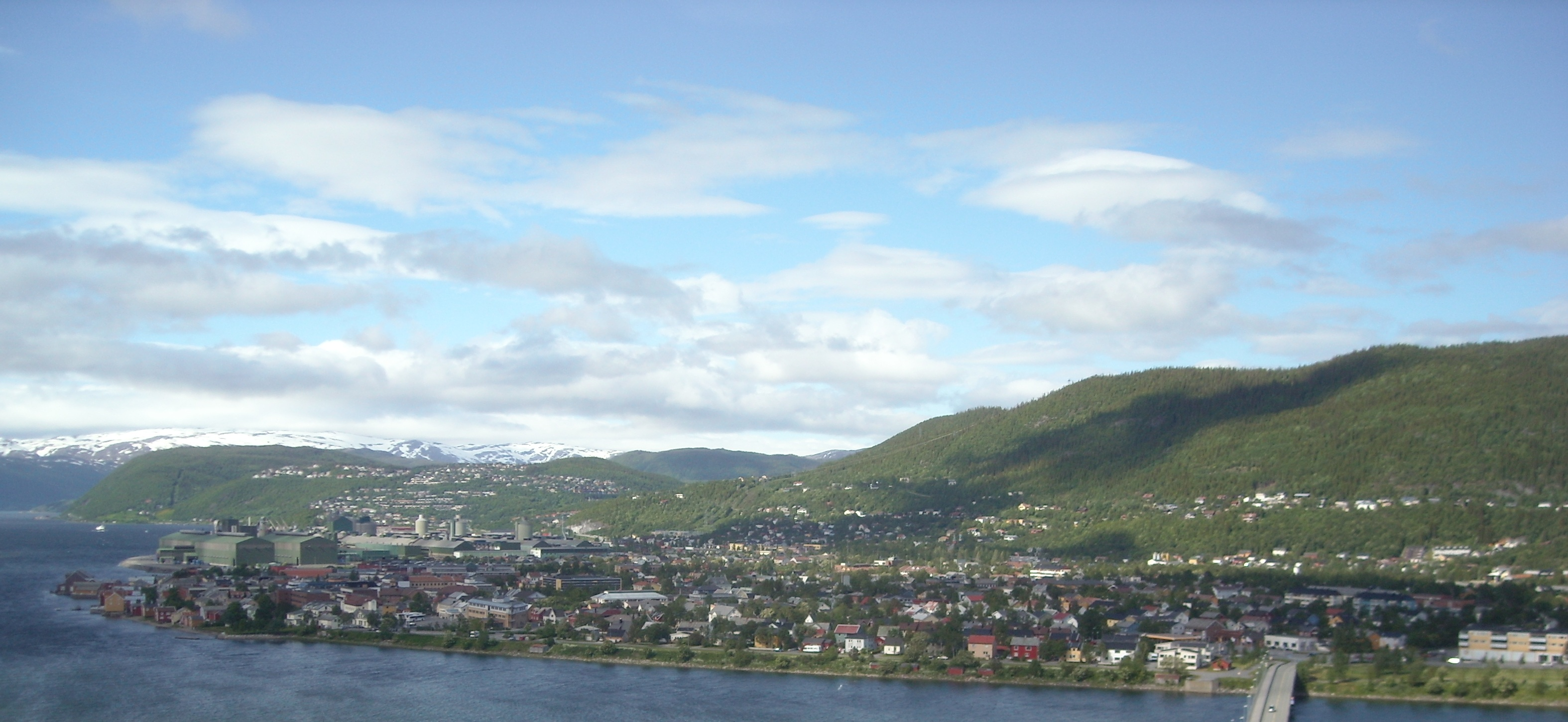 Byflata, Mosjøen, Norway.